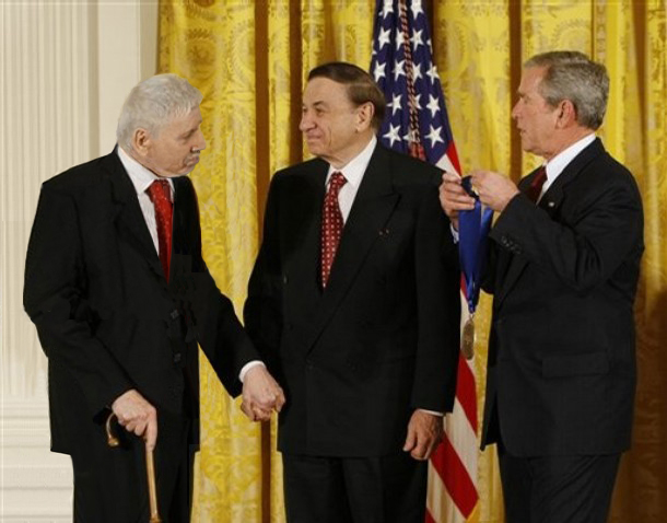 The Sherman Brothers Receive the National Medal of Arts, the highest honor bestowed upon artists or patrons of the arts by the United States Government. Left to right: Robert B. Sherman, Richard M. Sherman and the President George W. Bush at The White House, November 17, 2008.